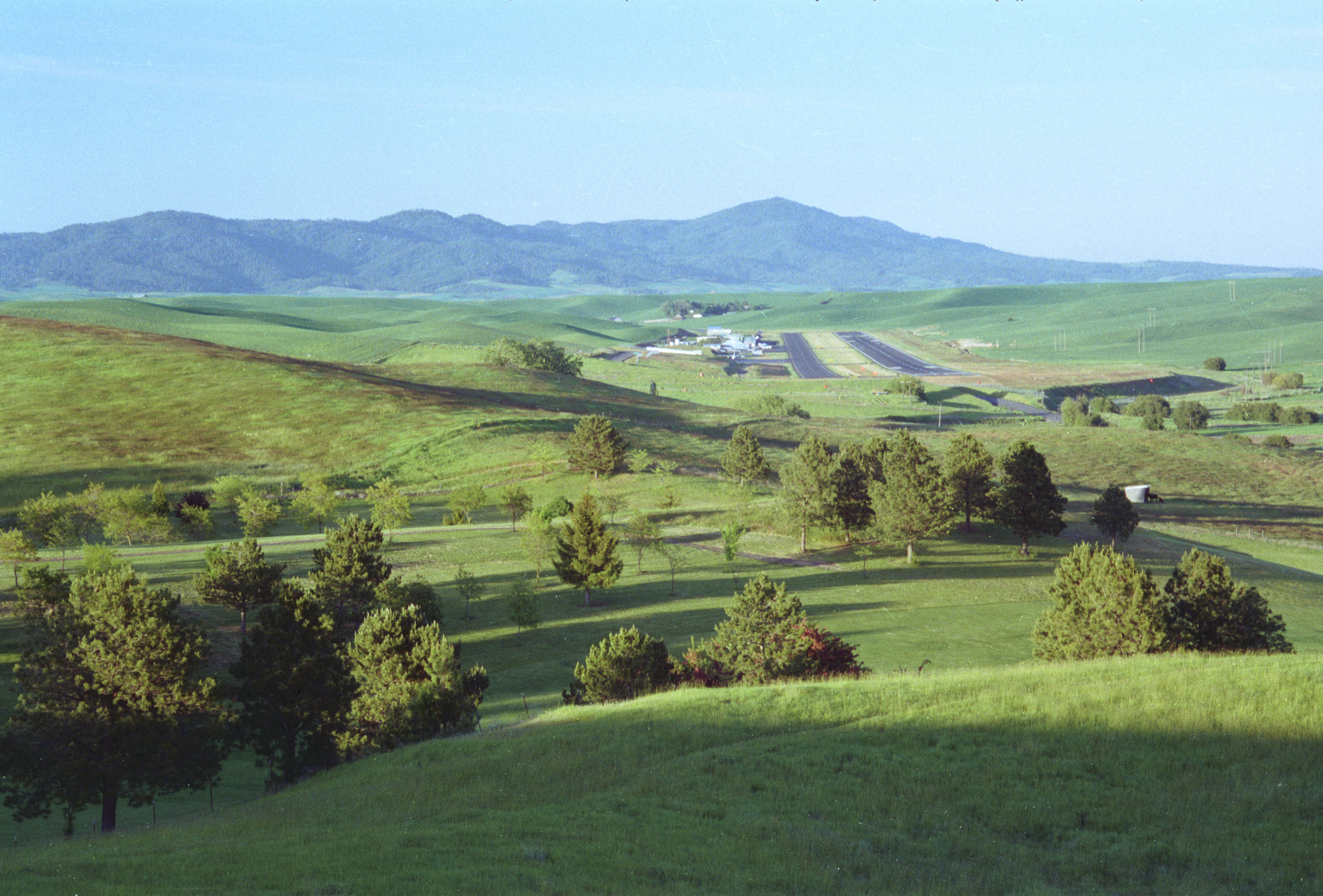 Moscow-Pullman Regional Airport